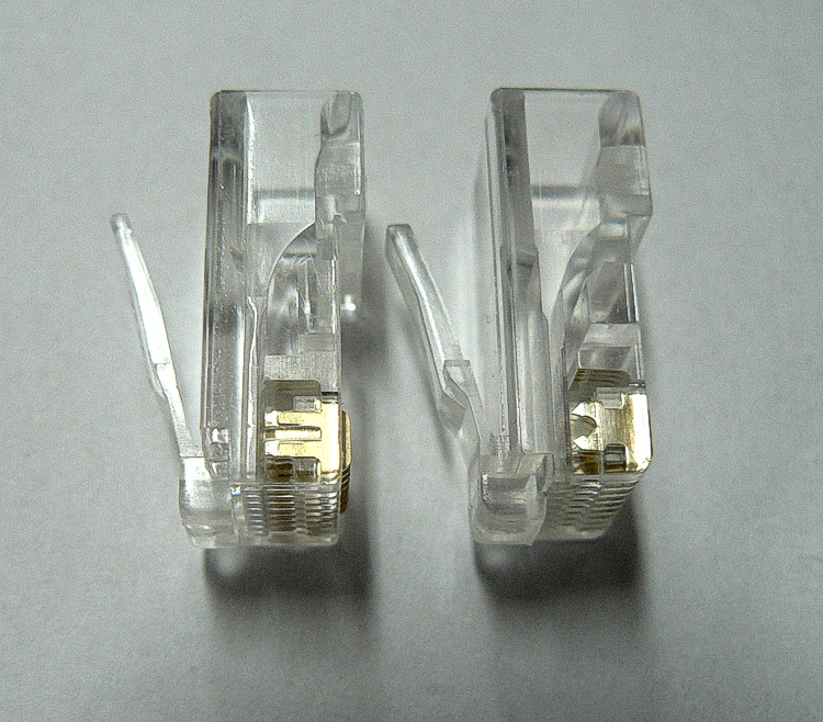 hardware RJ-45 comparing